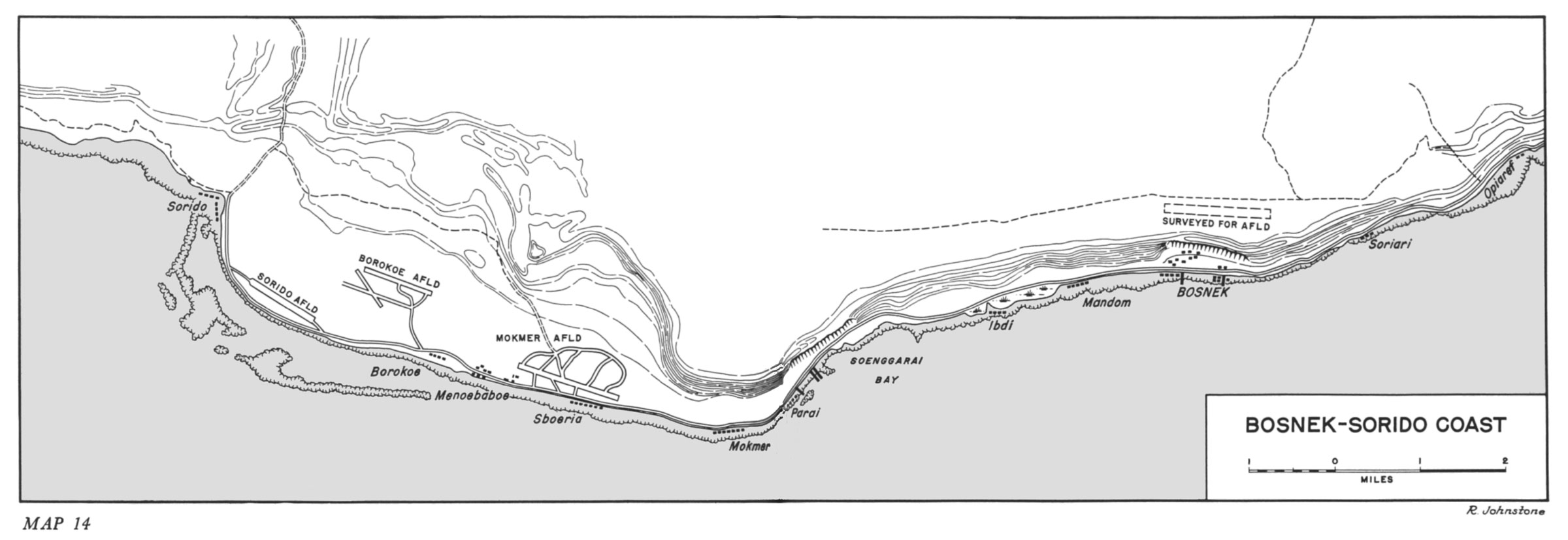 Map of Biak Island. The Map is important to understand troop operations during the battle of Biak, in Mai-June-July 1944. Replaceable? No, no other free images of that battle except for the Hyperwar-photos exist